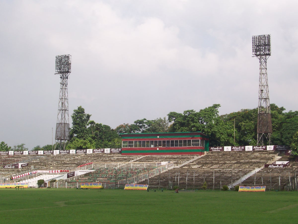 Mohun Bagan AC ground. Photo taken and owned by Soumyadeb Sinha.